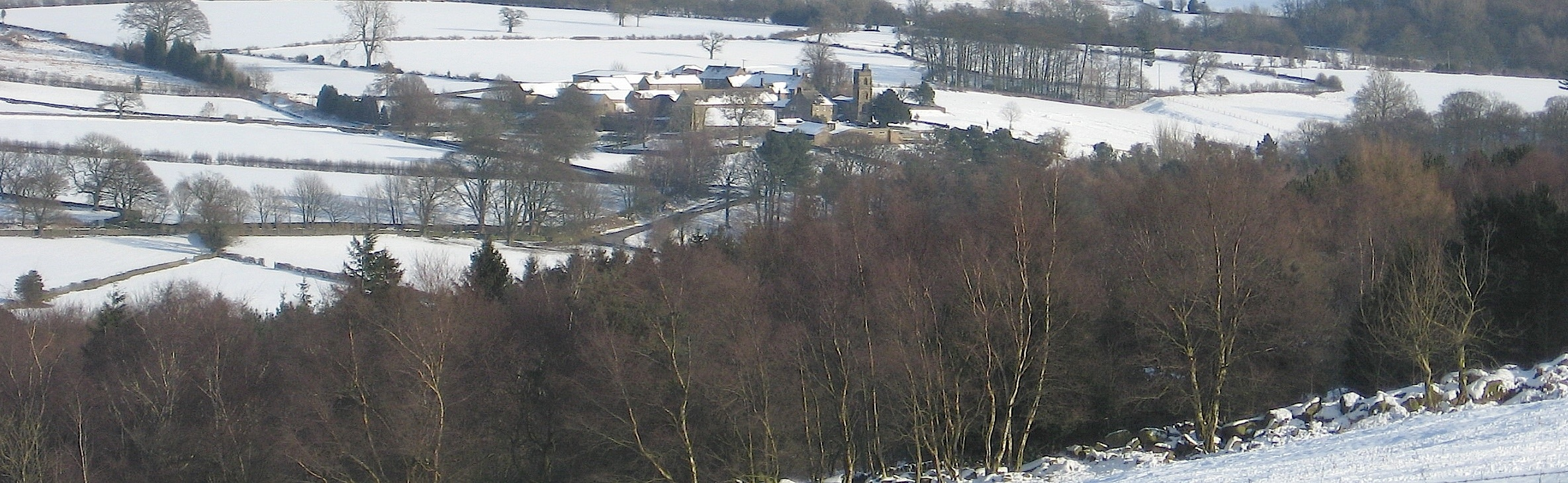 View of Dethick, Derbyshire from 2.6 miles west, Hearthstone Lane